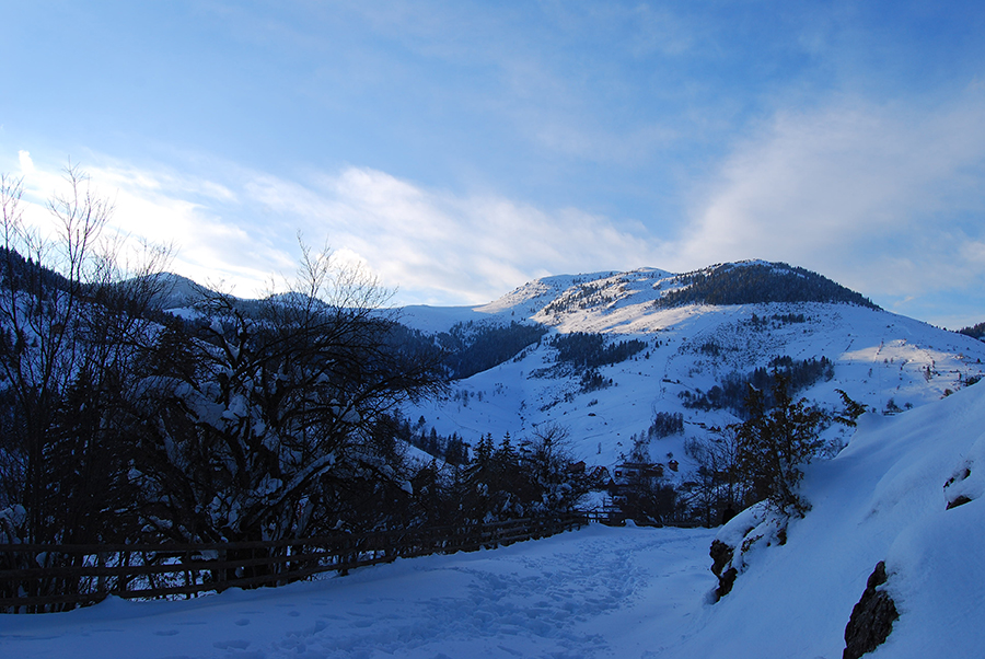 Boga Mountain 03